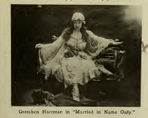 Silent film actress Gretchen Hartman in Married in Name Only (1917).